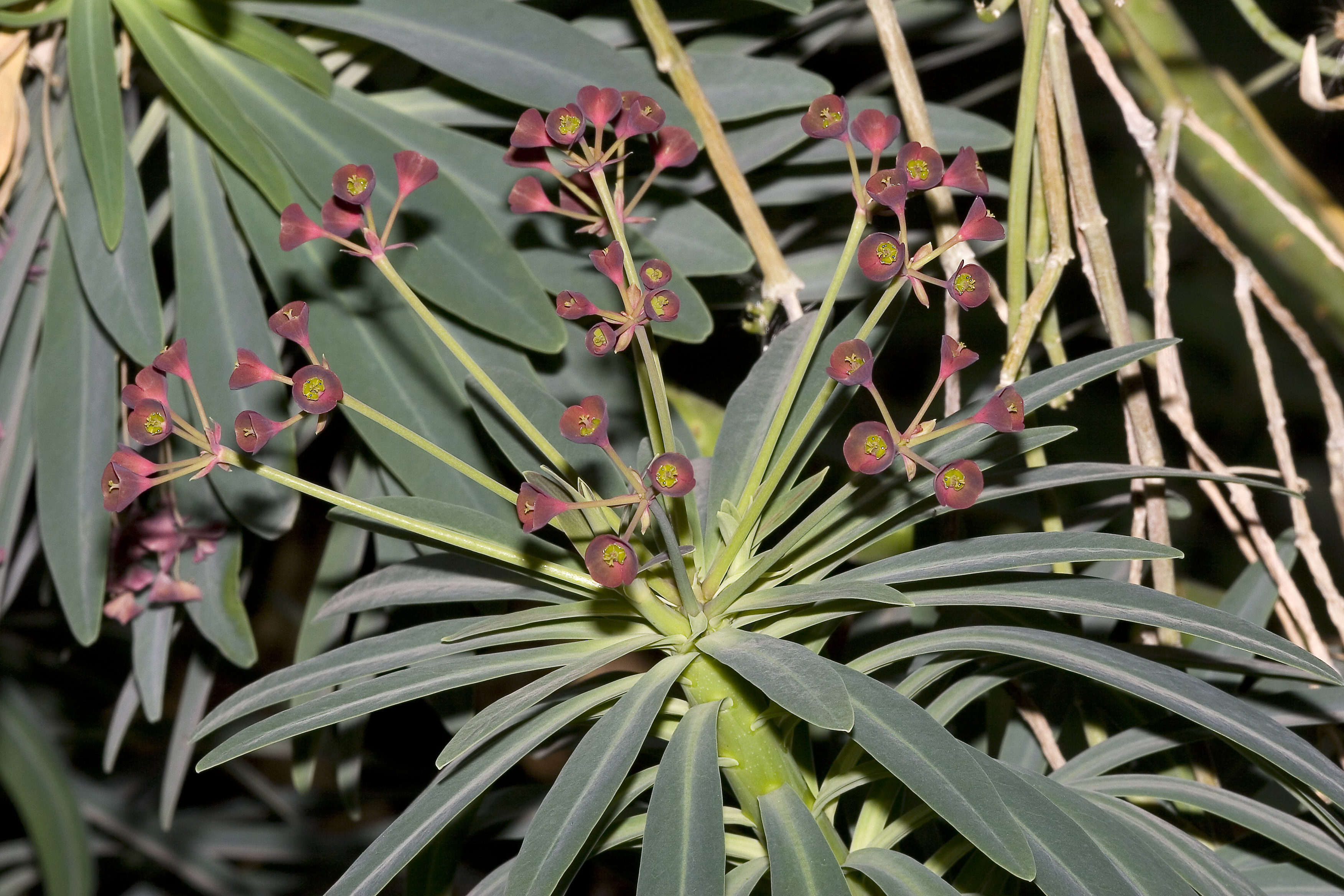 Euphorbia atropurpurea